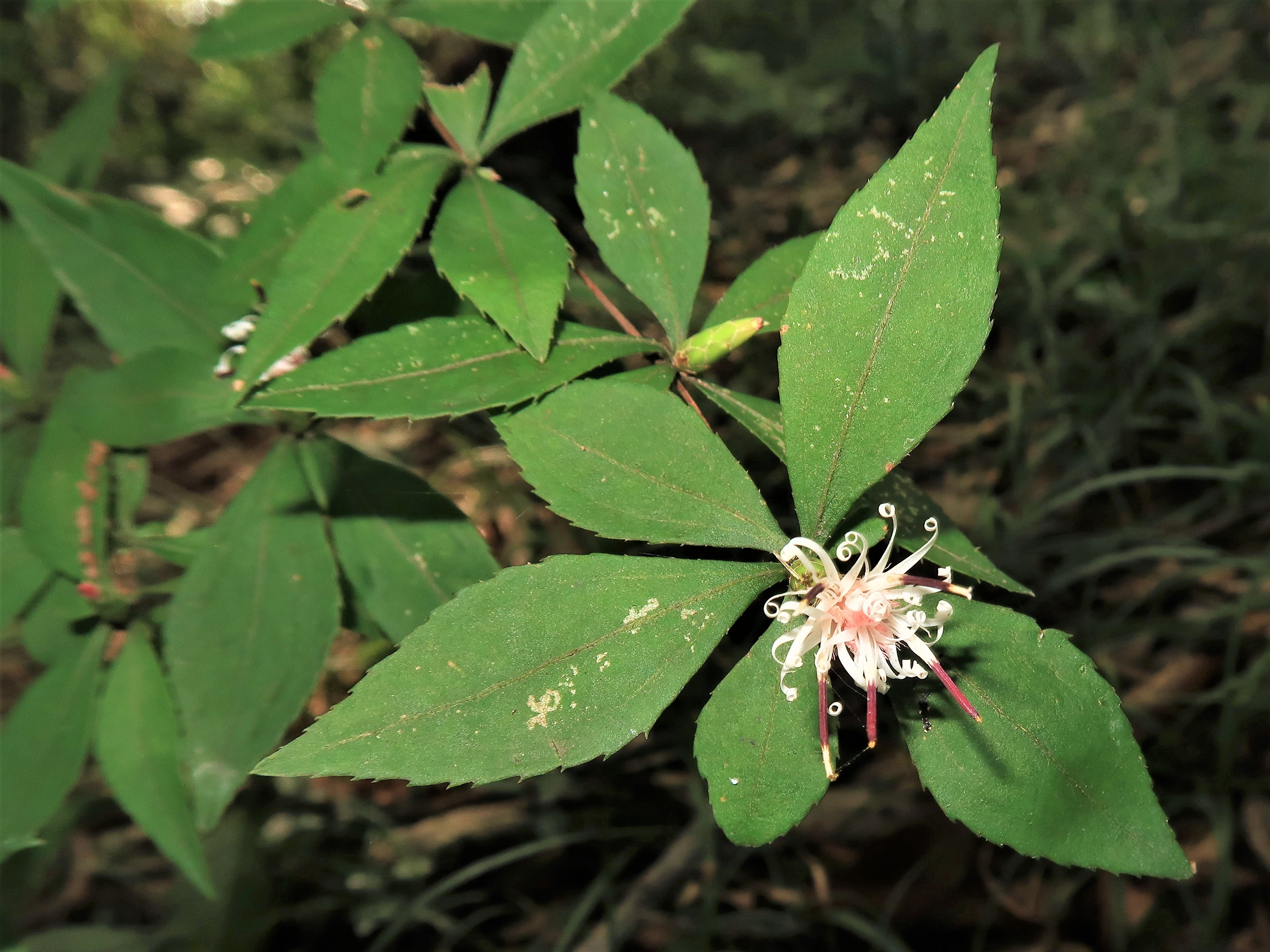 Pertya glabrescens, Hama-dori area, Fukushima pref., Japan